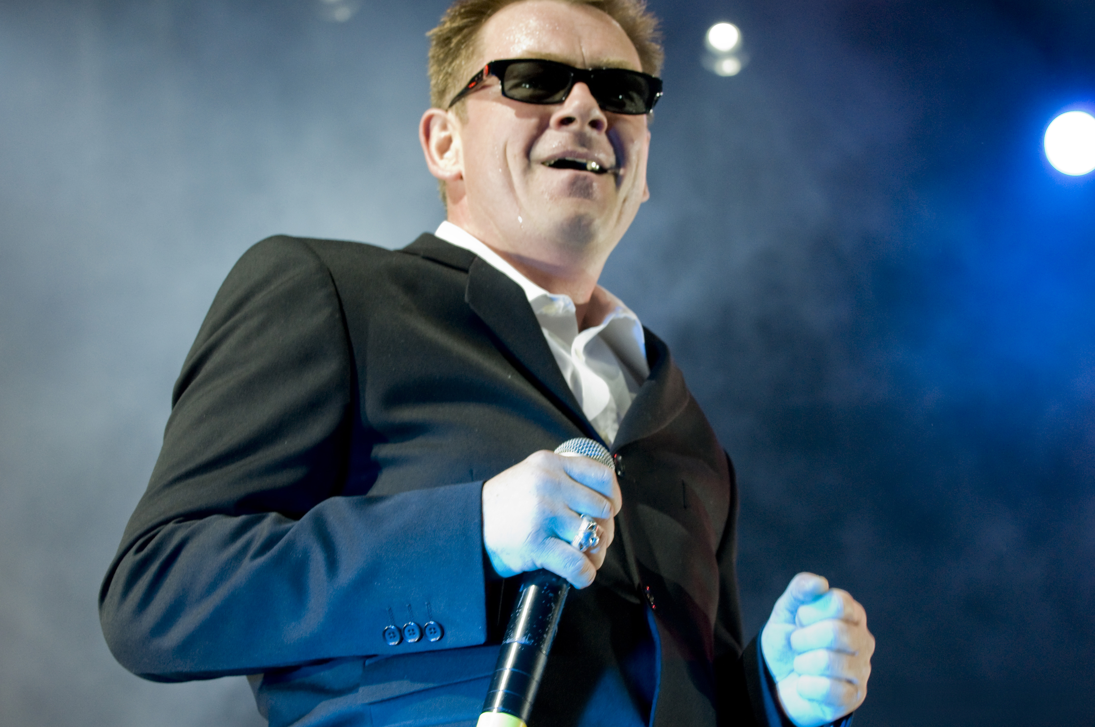 Madness (band)